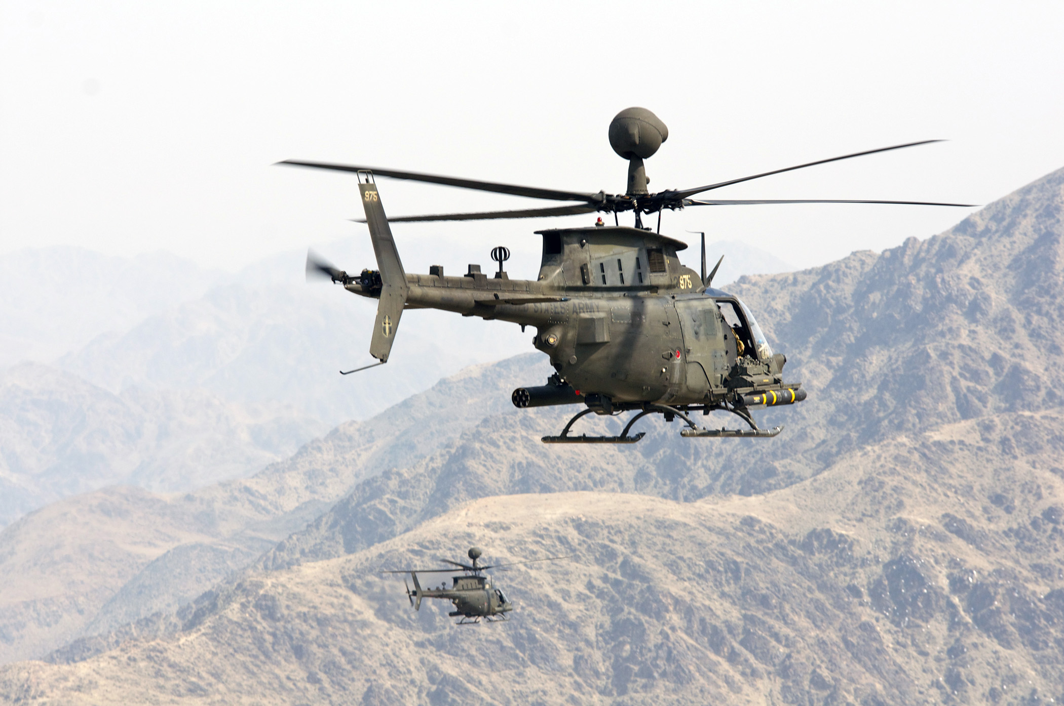 Two Task Force Saber, 82nd Combat Aviation Brigade OH-58D Kiowa Warriors fly toward a training range near Jalalabad, Afghanistan March 2, 2012. Saber's Kiowas lead the 82nd Combat Aviation Brigade in OH-58 hours, helping the brigade set flight-hour records in Afghanistan. The 82nd CAB has flown more than 65,000 hours since taking over in mid-October. (U.S. Army photo by Sgt. 1st Class Eric Pahon, Task Force Poseidon Public Affairs)